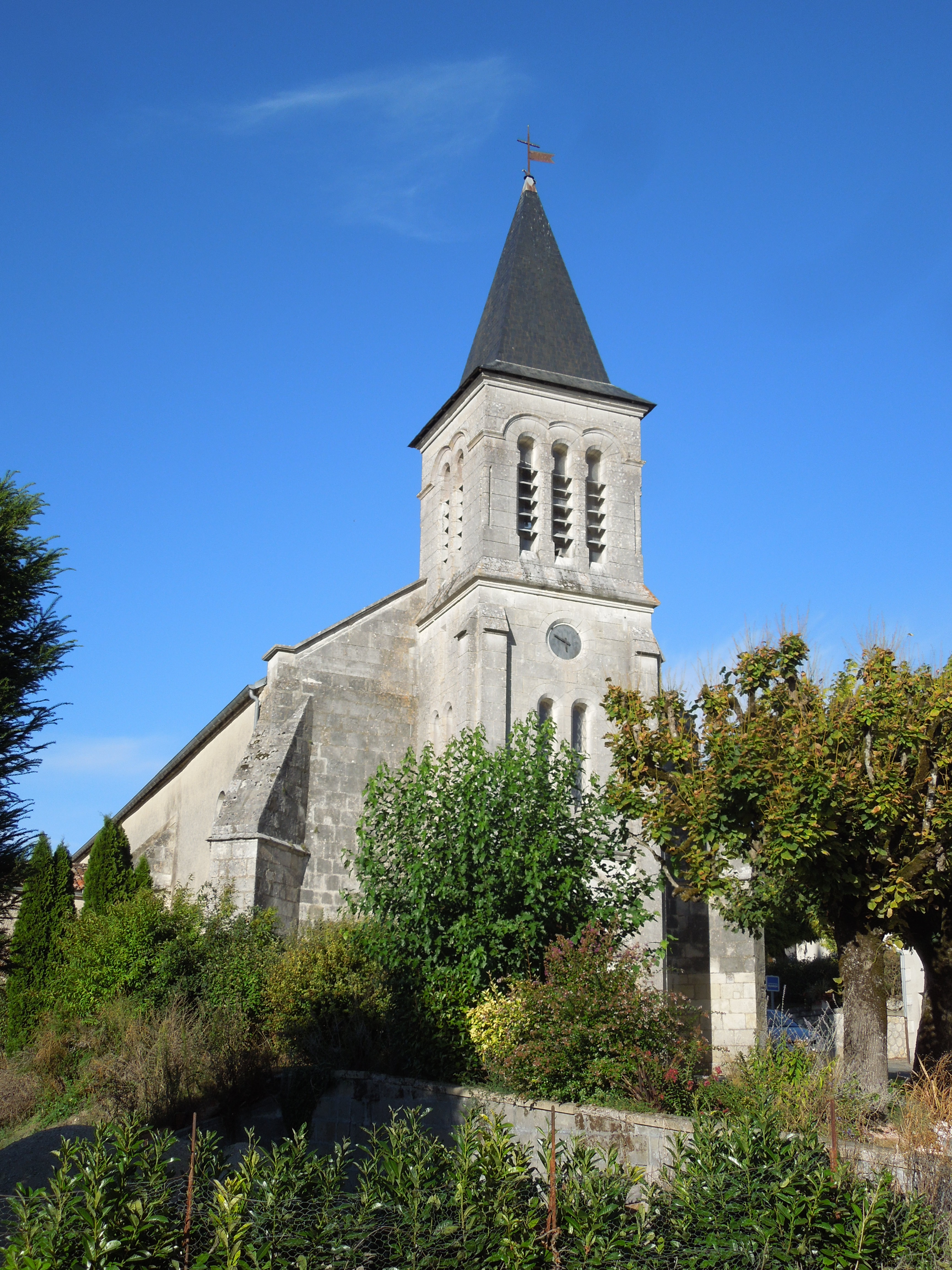 Saint-Maigrin, village church